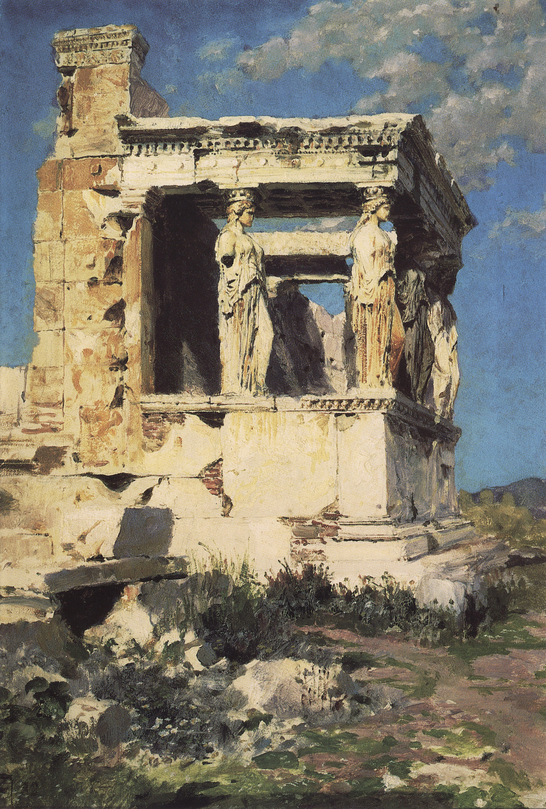 Erechtheum. The Porch of Caryatids